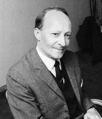 Photograph of the Polish composer and pianist Witold Lutosławski (1913–1994) during his visit to Finland.